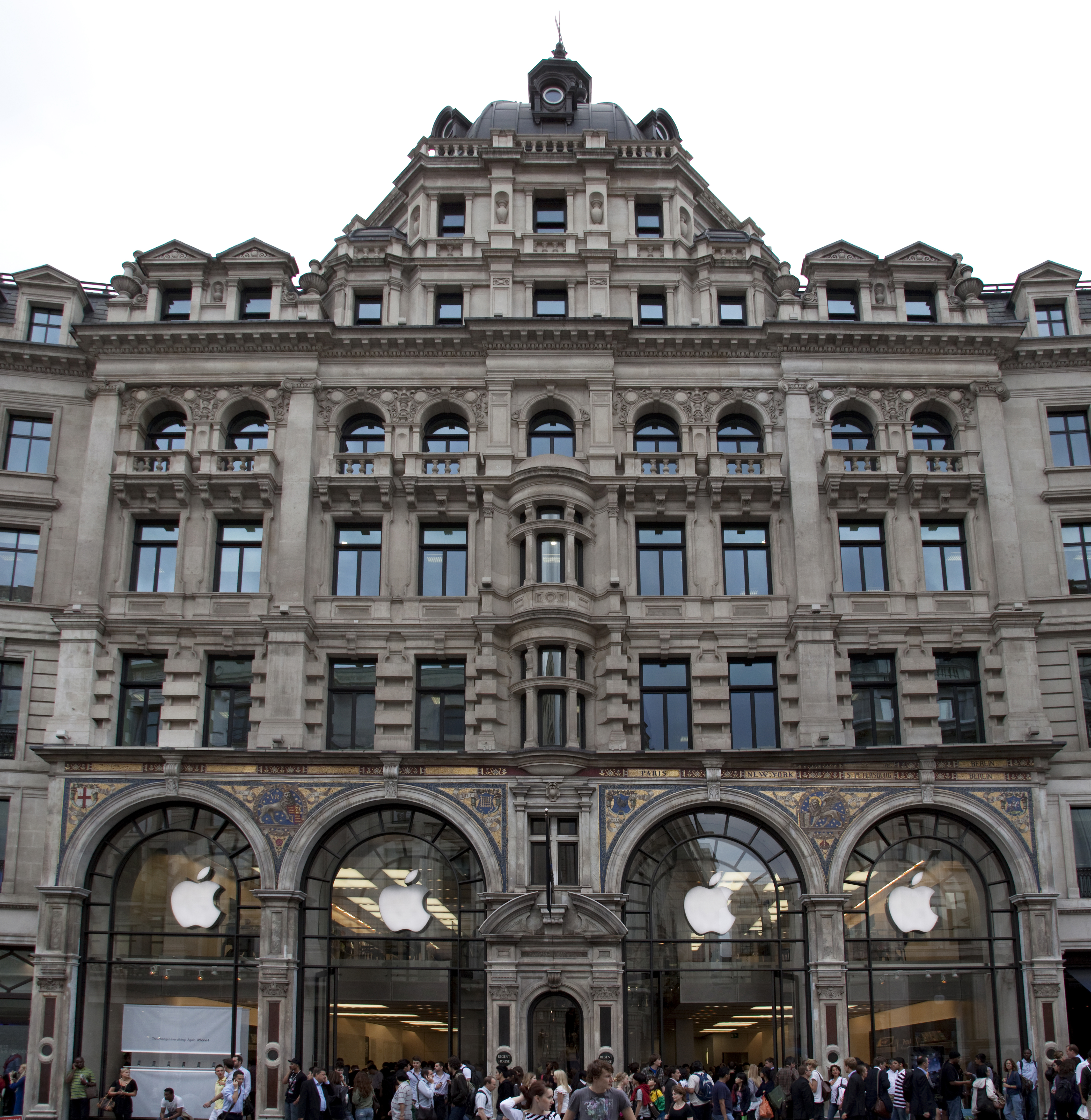 Apple Store Regents Street